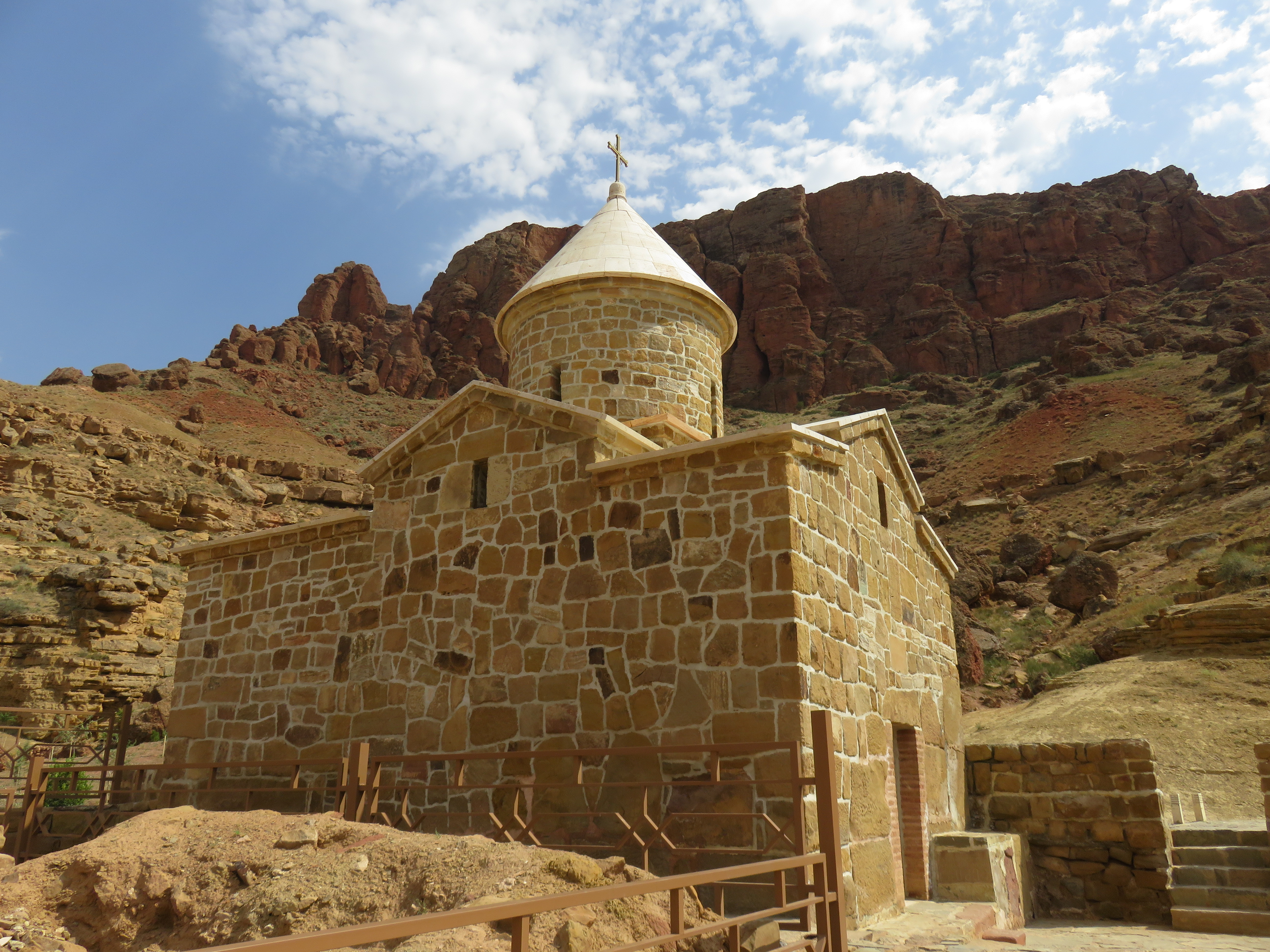 Sheperd chapel near Jolfa